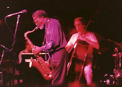 Joe Henderson With Neil Swainson, bass; Jon Ballantyne, piano; at Harpo's, Victoria.